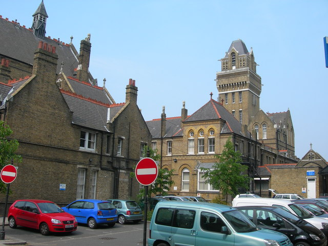 St Charles Hospital, Exmoor Street, W10 The tower can be seen for some distance around, including from the Paddington mainline that runs a short distance to the north.